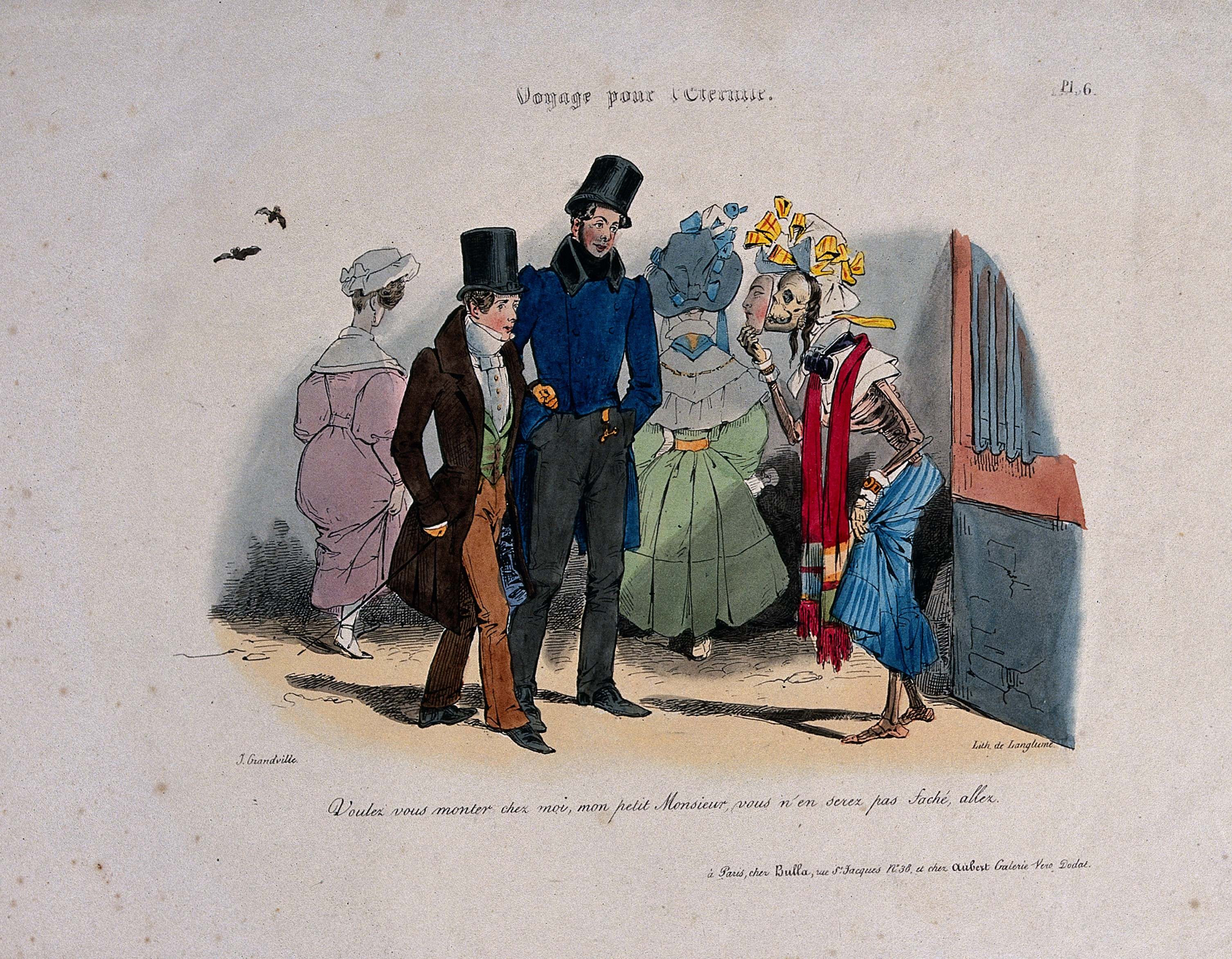 Voyage pour l'Eternite; A gentleman and his son are approached by a prostitute holding a mask of a young face behind which she is actually a skeleton. Lettering says: 'Voulez vous monter chez moi, mon petit Monsieur, vous n'en serez pas faché, allez'.'Would you like to come up with me young sir, you will not be disappointed, come.' Lithograph by Grandville. Iconographic Collections Keywords: Sexually Transmitted Diseases; Langlumé; Death; Jean-Ignace-Isidore Gérard; Prostitution